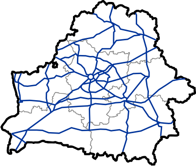 Map of main automobile roads in Belarus